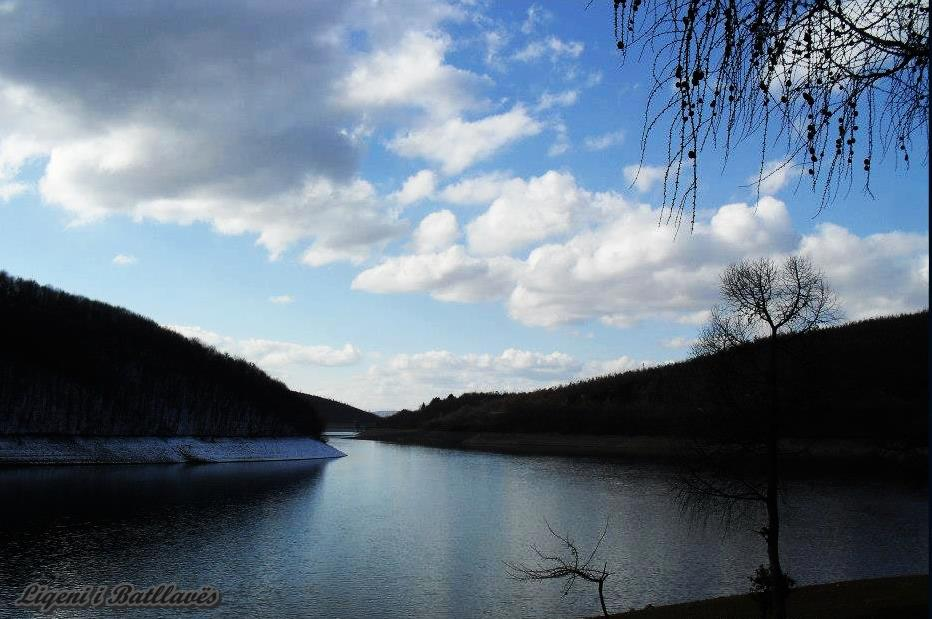 Batlava Lake